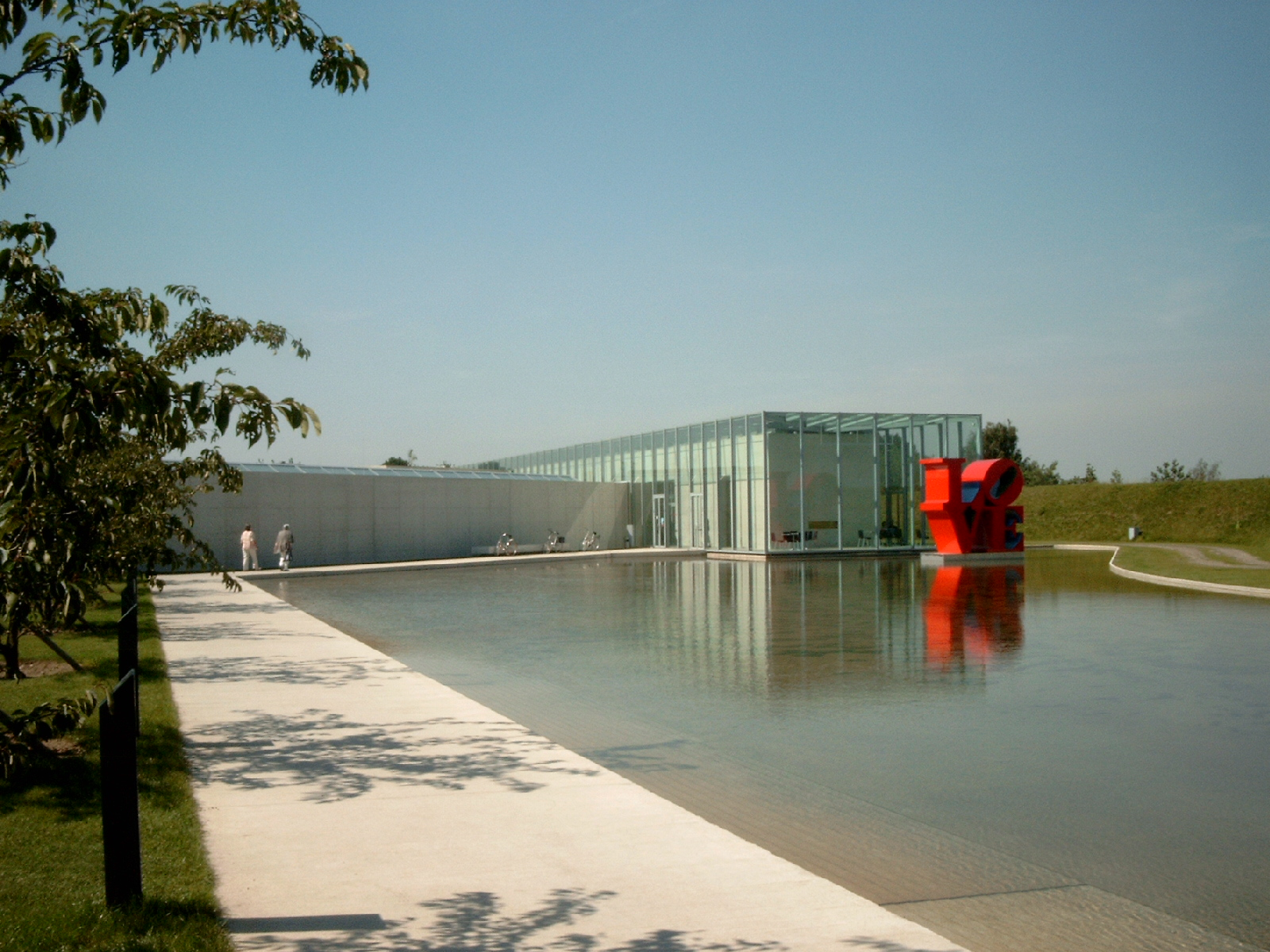 Langen Foundation Native nameLangen FoundationLocationNeuss, GermanyCoordinates51° 09′ 09″ N, 6° 38′ 41″ E Established2004Website control VIAF: 130400362 SUDOC: 128703709 Museum Langen Foundation in Insel Hombroich bij Düsseldorf, Duitsland